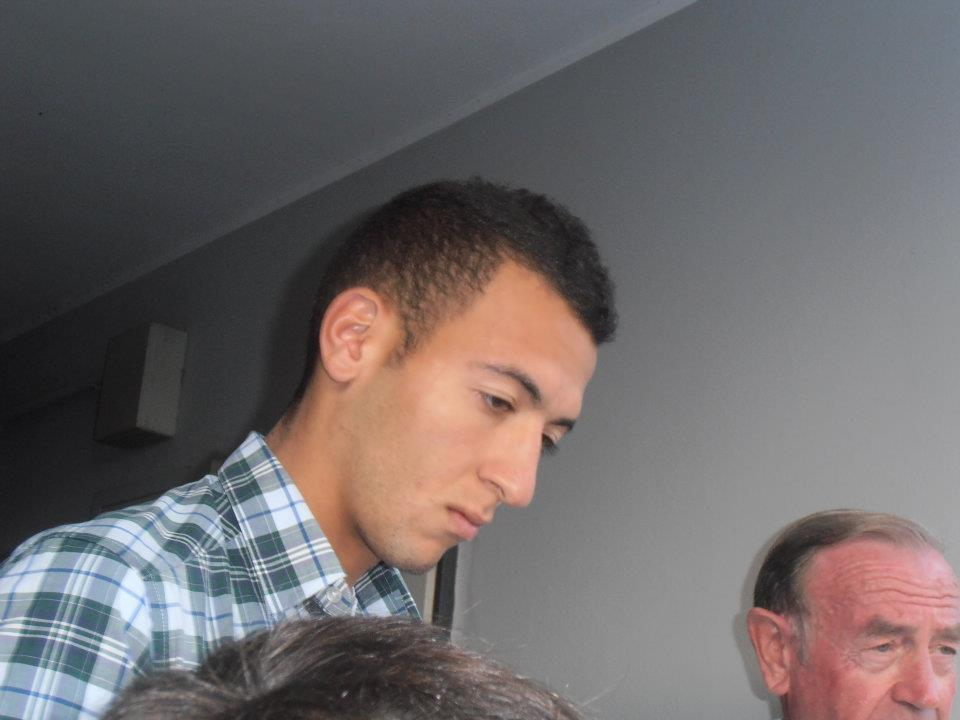 El Kaddouri